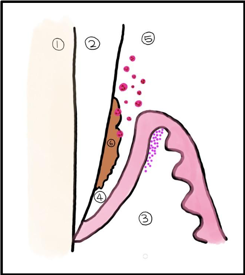 Picture of Gingival Sulcus